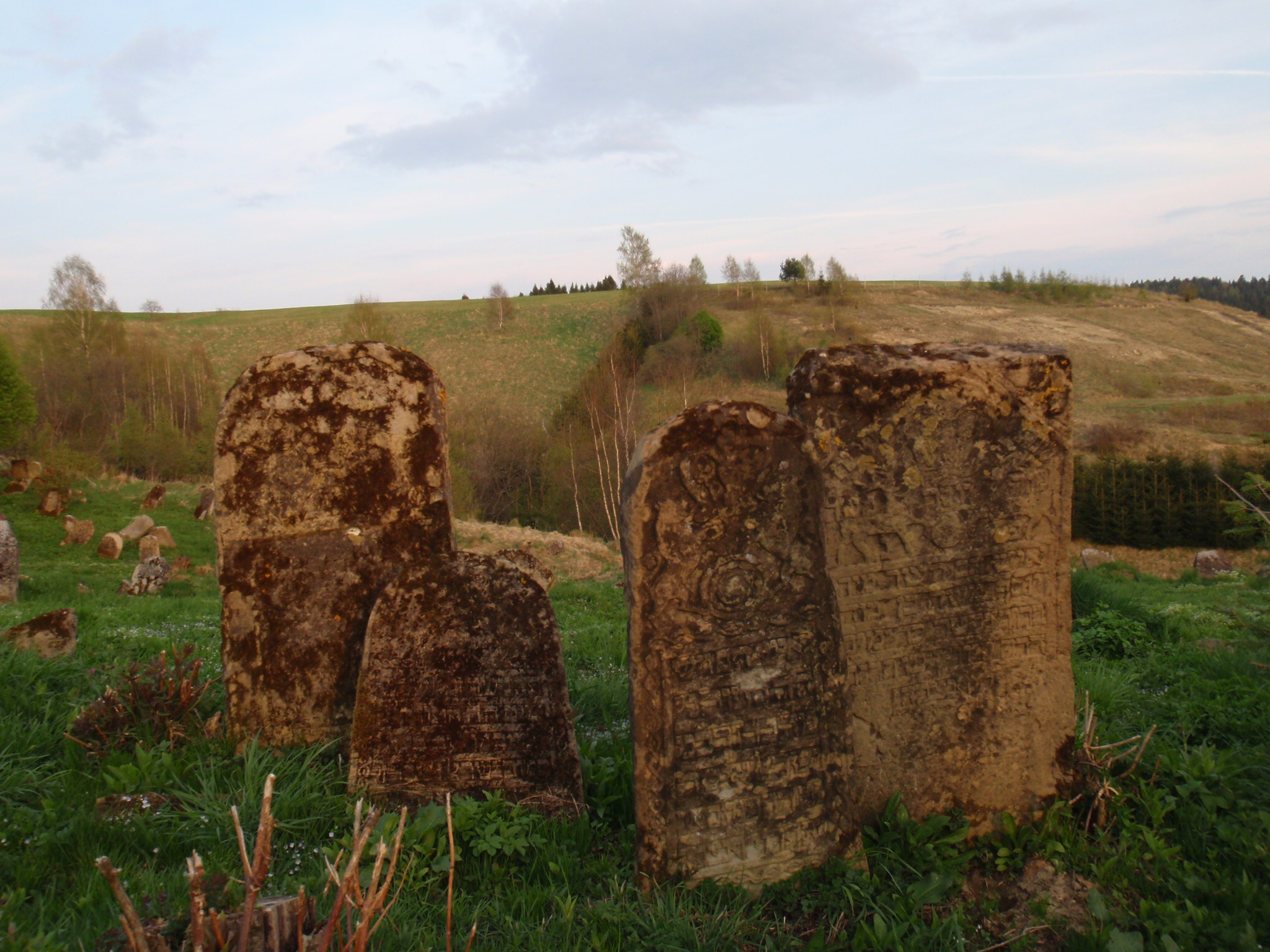 Lutowiska - jewish cemetery